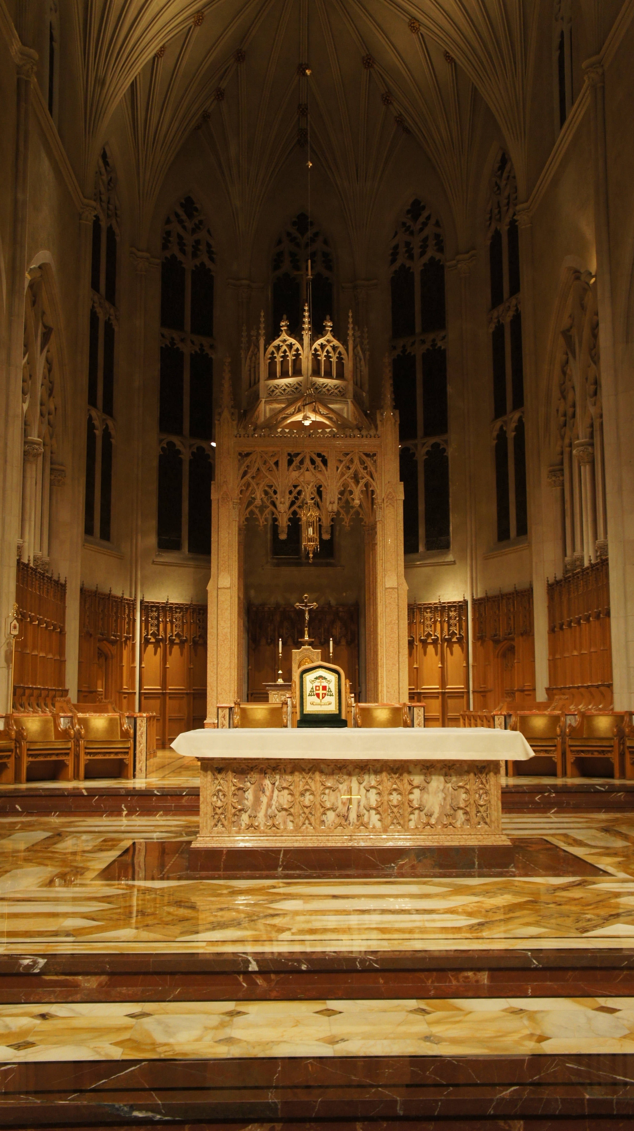 Cathedral Basilica of Christ the King (Hamilton) - Interior